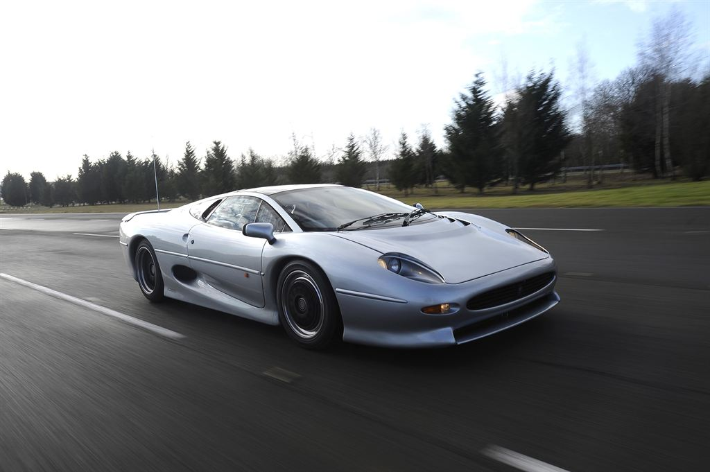 The XJ220 remains the fastest Jaguar ever produced and when launched in 1992 and, at 213mph, had the highest maximum speed of any production car. Constructed using advanced aluminium honeycomb, the car was immensely strong and, despite its size, weighed just 1,470 kg.